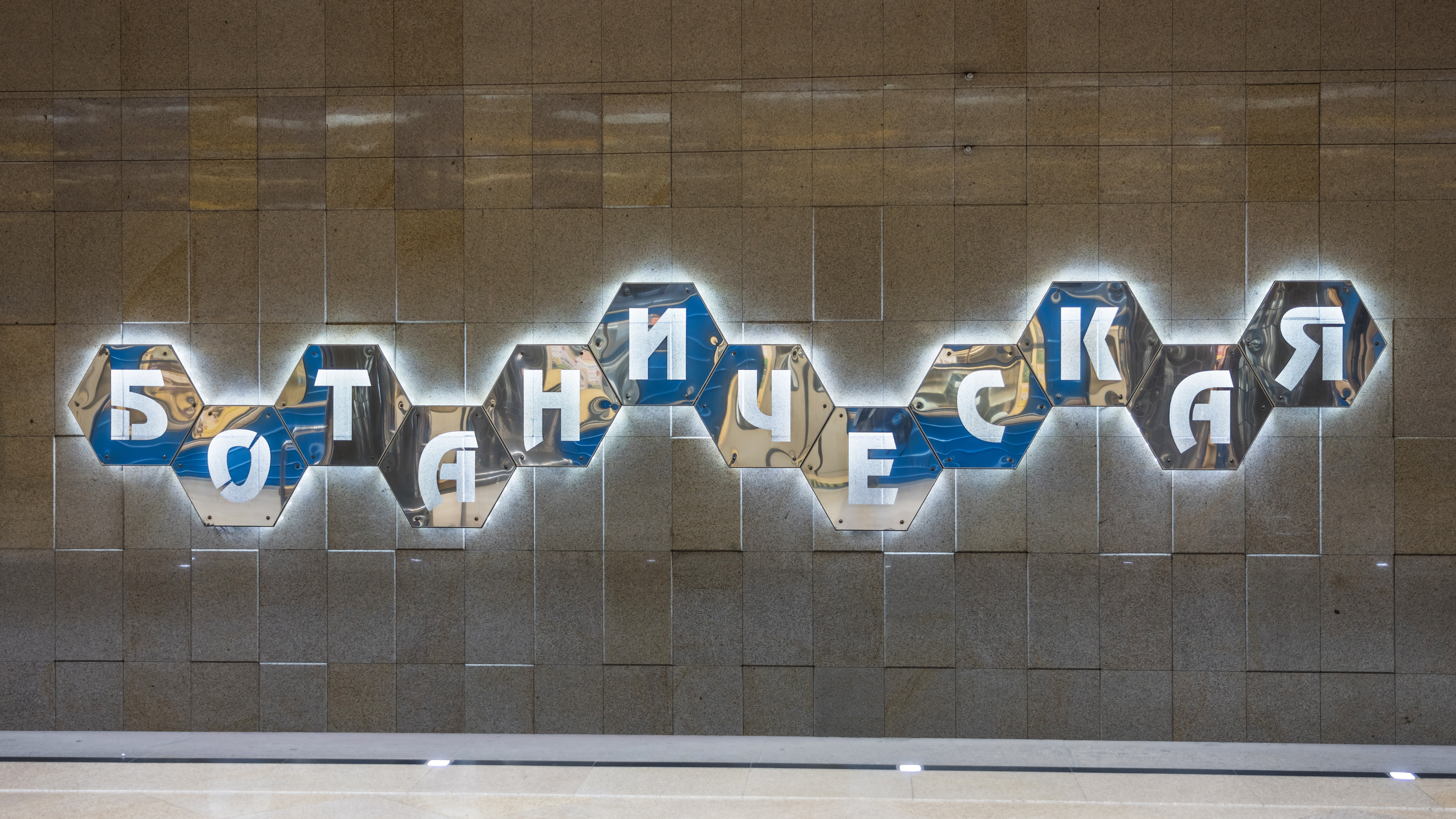 Botanicheskaya metro station in Ekaterinburg, Russia